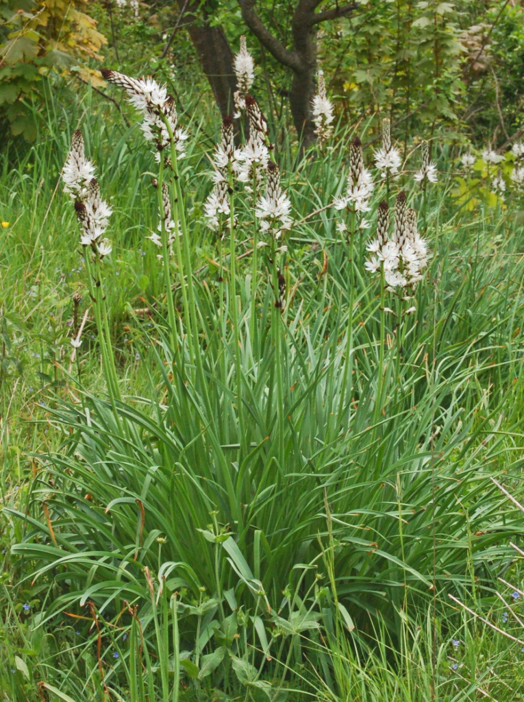 Asphodelus macrocarpus - Creto, Genova, Italy